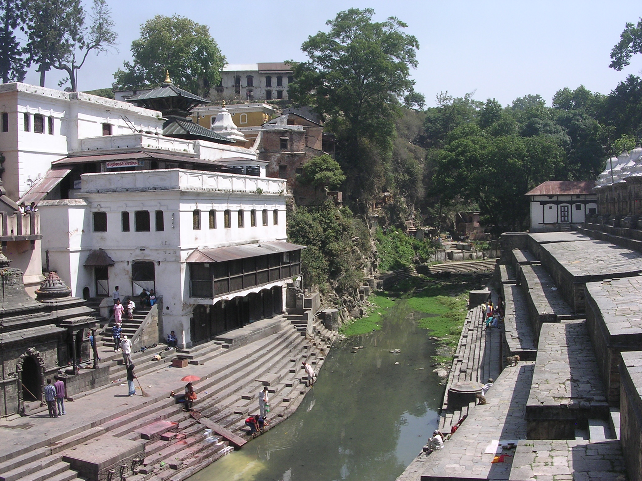 Picture by JoonYoung, Kim on 29 May 2005